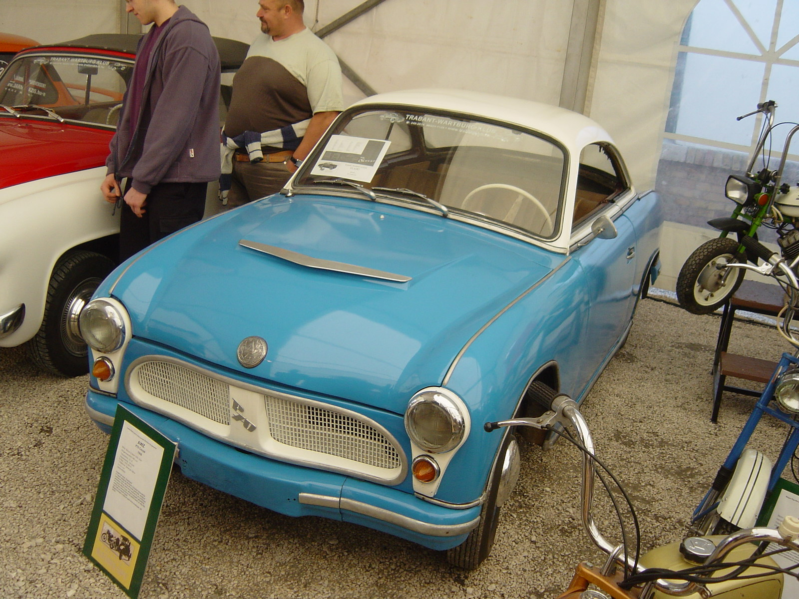 AWZ P70 Coupé, produced in 1958, during the Oldtimer Expo 2008.